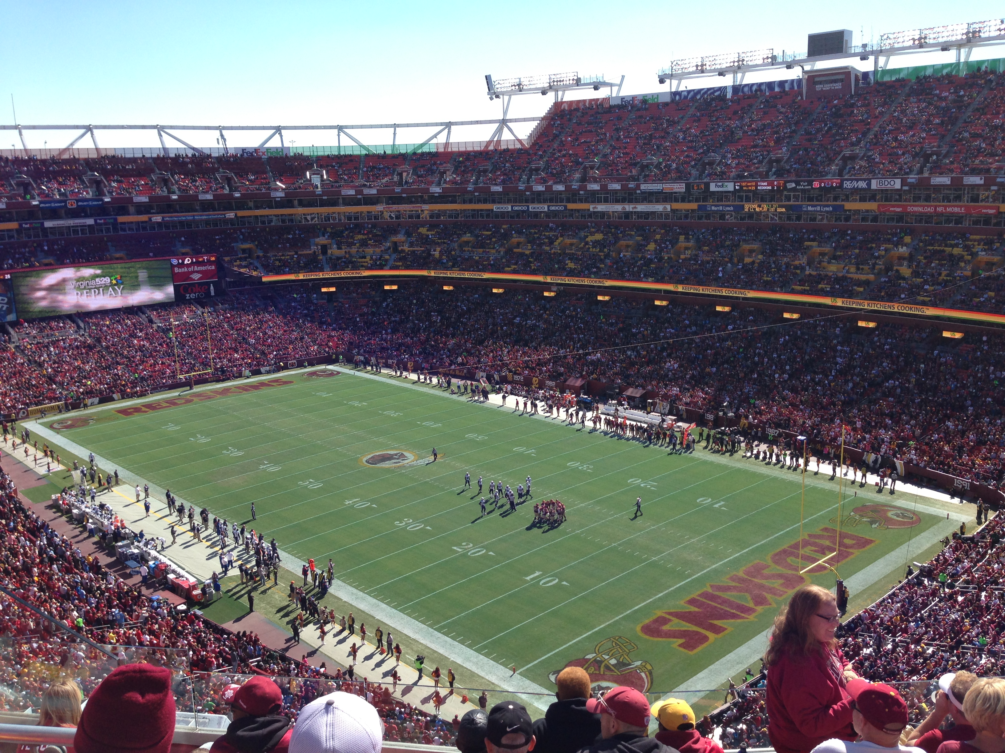 During an NFL Game, 2014